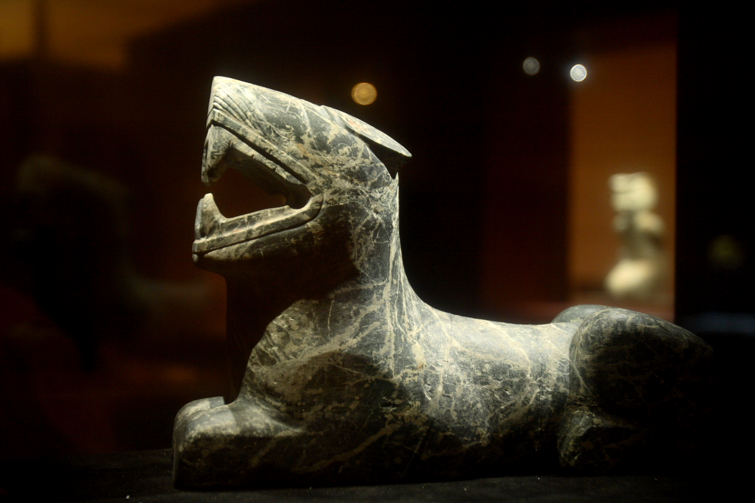 Stone tiger in Jinsha archaeological site, Chengdu China